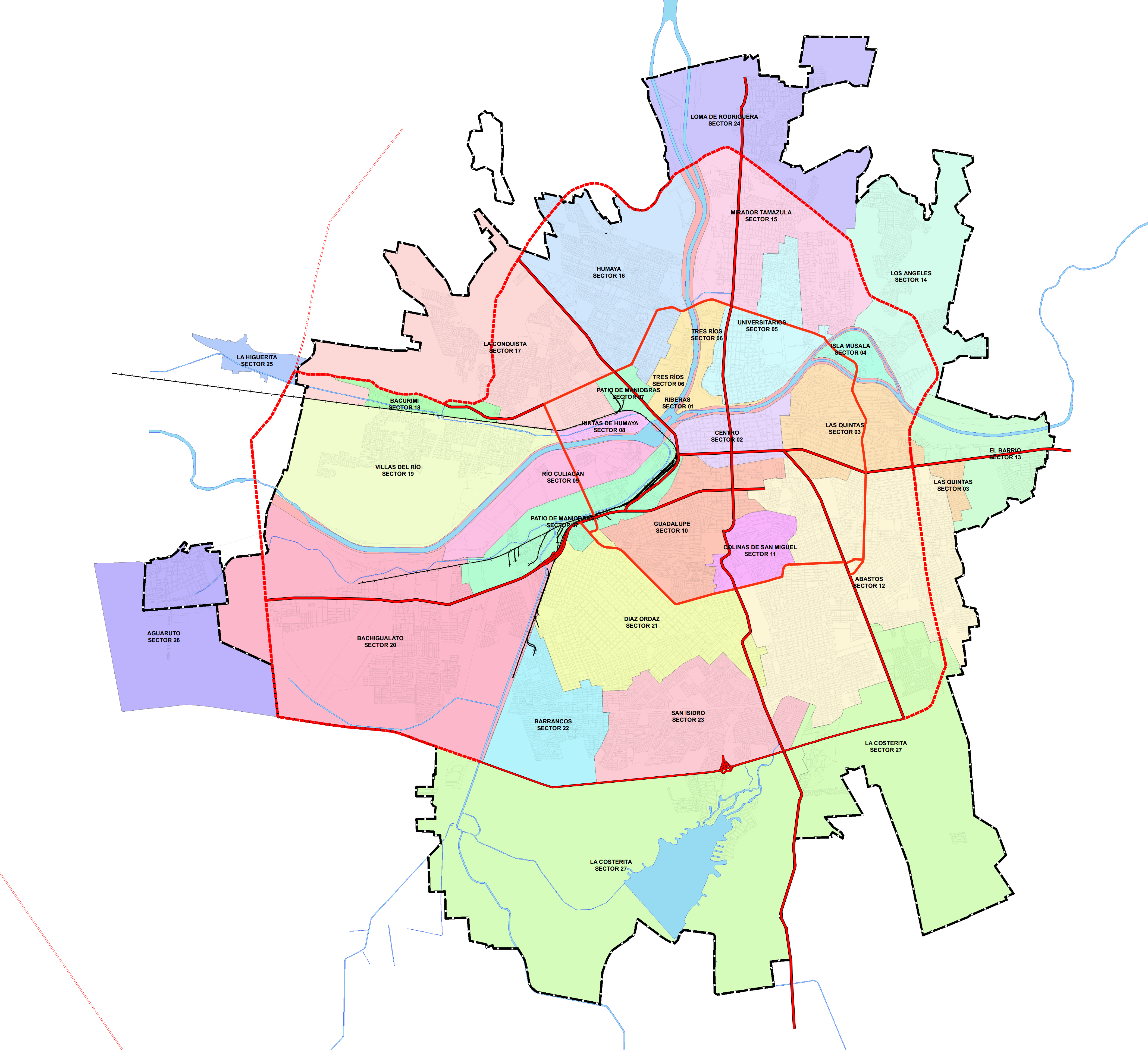 The 27 sectors how is Culiacán divided, by Implan.